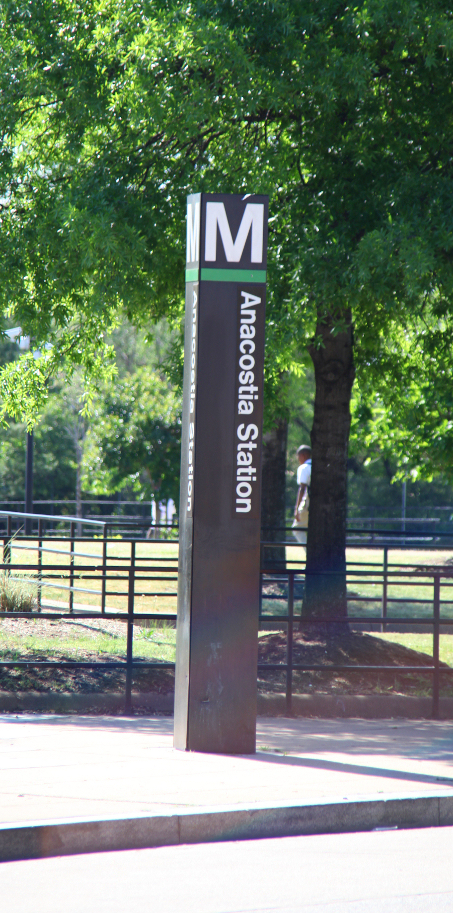 Exterior pylon at the Anacostia Metro Station (on Howard Road SE) in Washington, D.C., in the United States.